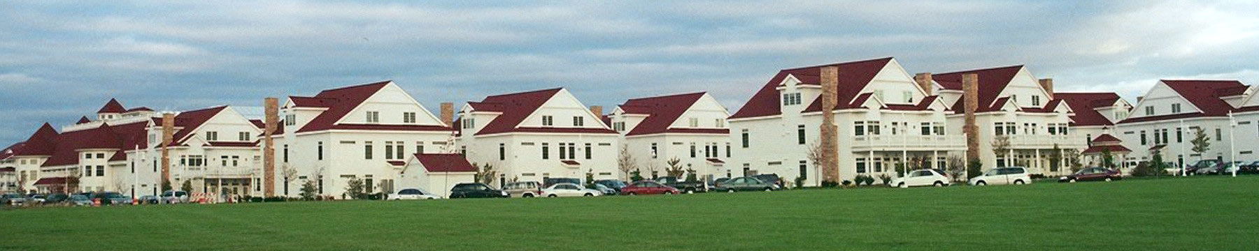 Blue Harbour Houses at Sheboygan, Wisconsin, USA